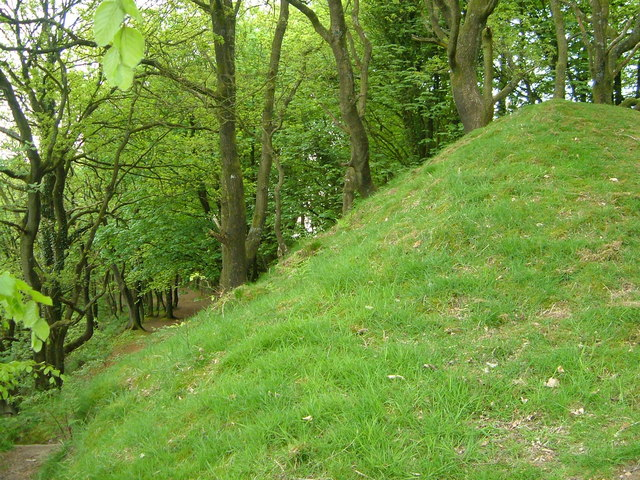 Bank at Castle Neroche. Part of the eastern earthworks of Castle Neroche, perched on a wooded summit in the Blackdown Hills.